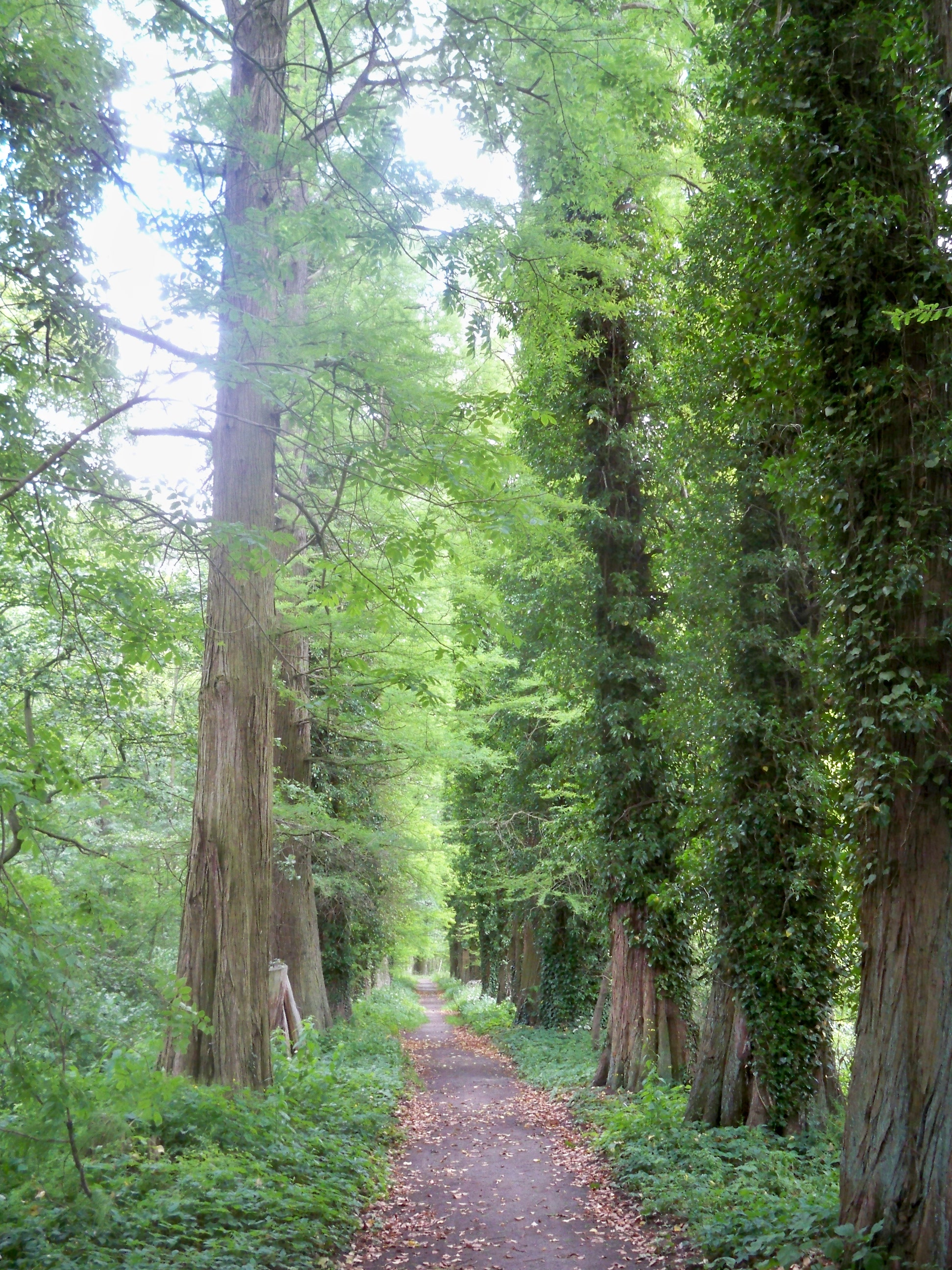 Beetzendorf, Saxony-Anhalt, avenue of Taxodium distichum in park